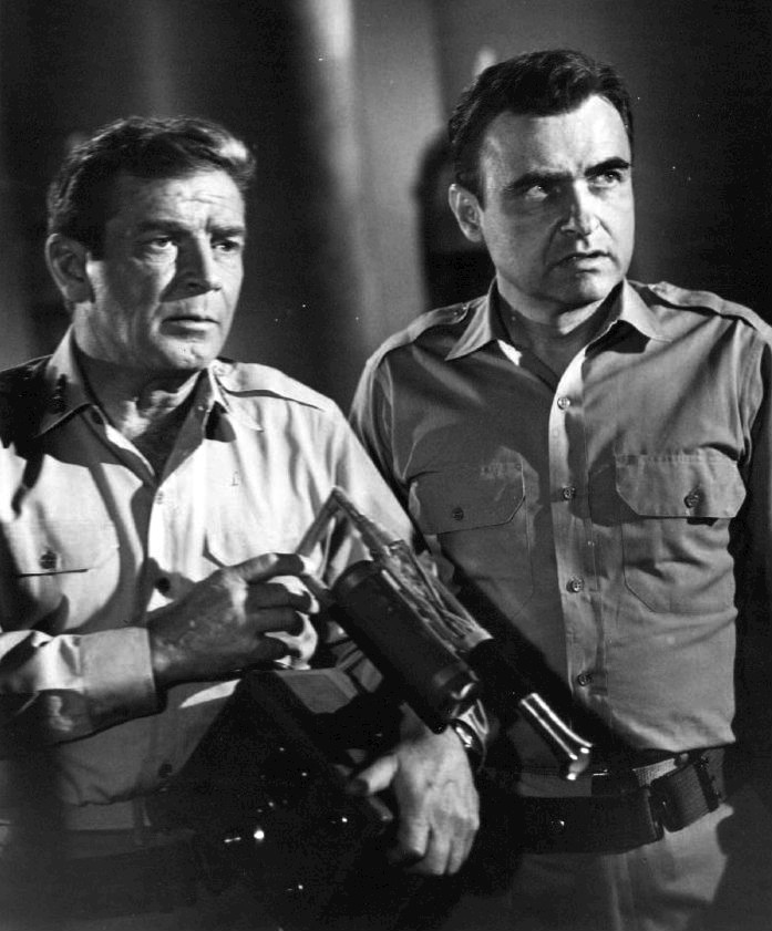 Publicity photo from the television program Voyage to the Bottom of the Sea. Pictured are Richard Basehart and Terry Becker.